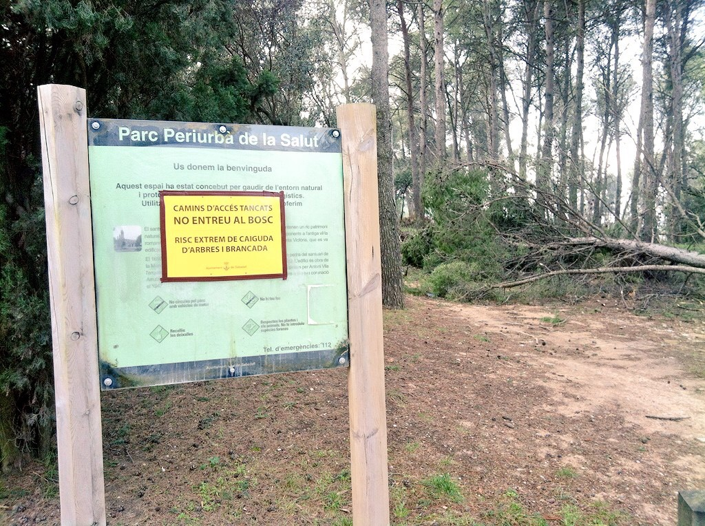 Temporal vent Vallès 2014